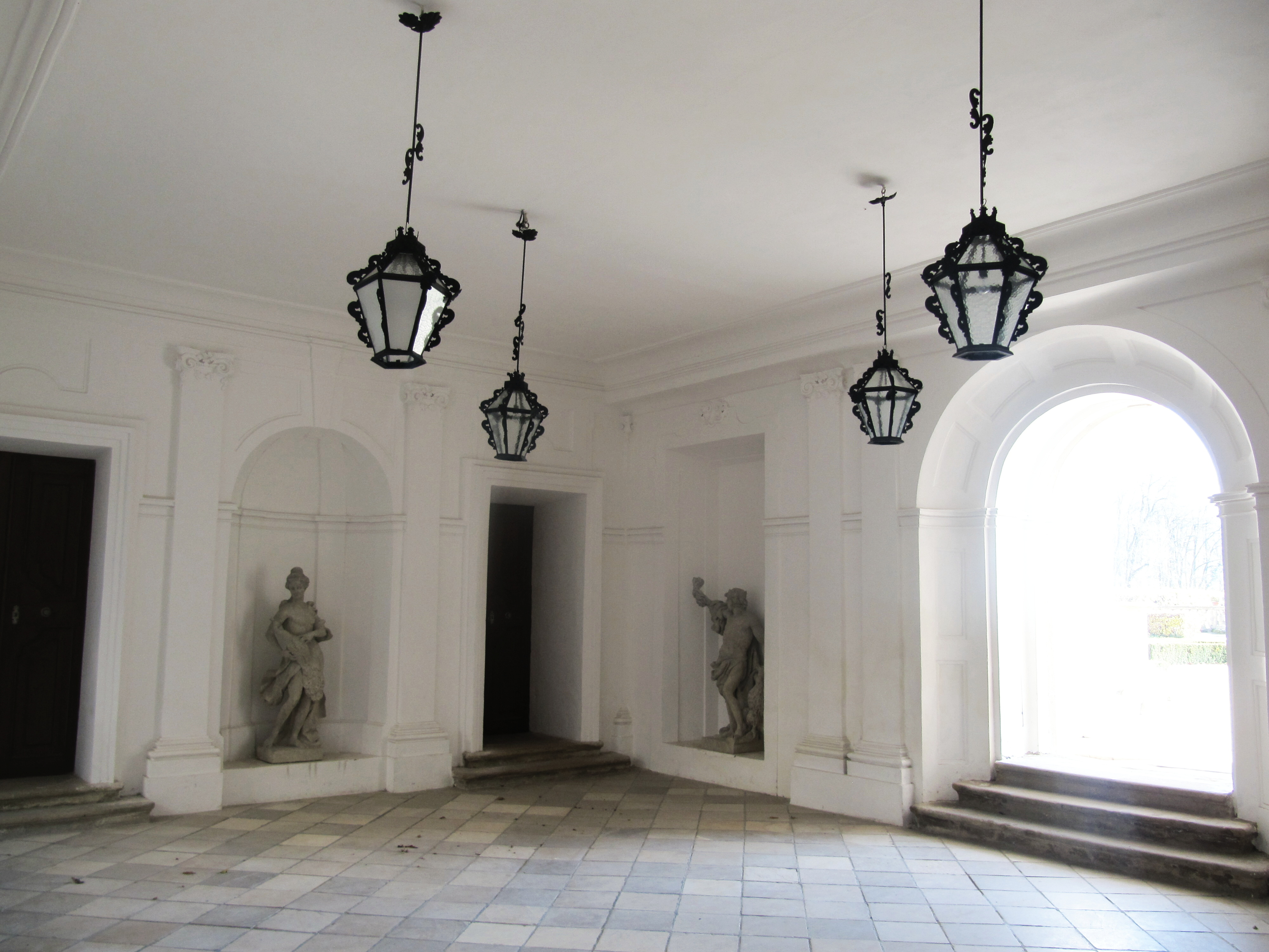 Milotice in Hodonín District, Czech Republic. Vestibule of the castle.